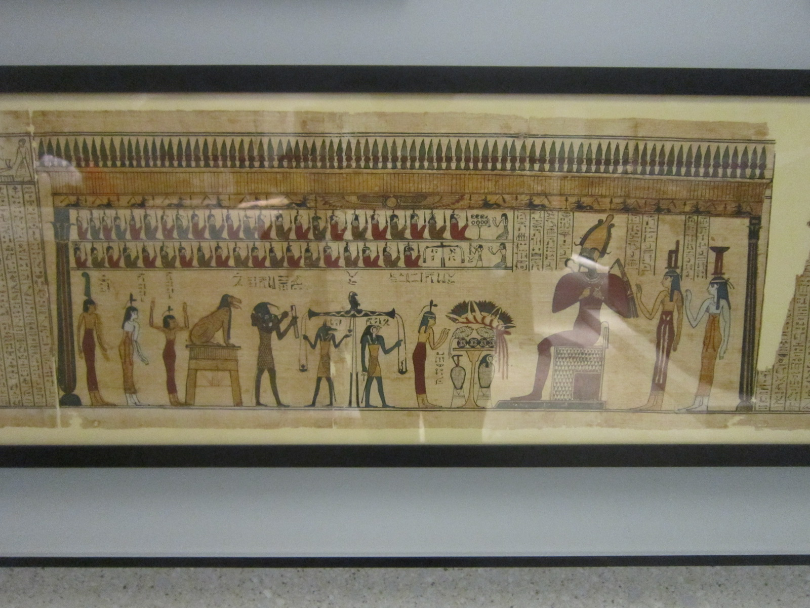 Book of the Dead of Neferini (hieratic). Ptolemaicperiod, 4th-1st century BC. Papyrus. h. 26 cm, overall length 956 cm. Akhimim. Ägyptisches Museum Berlin